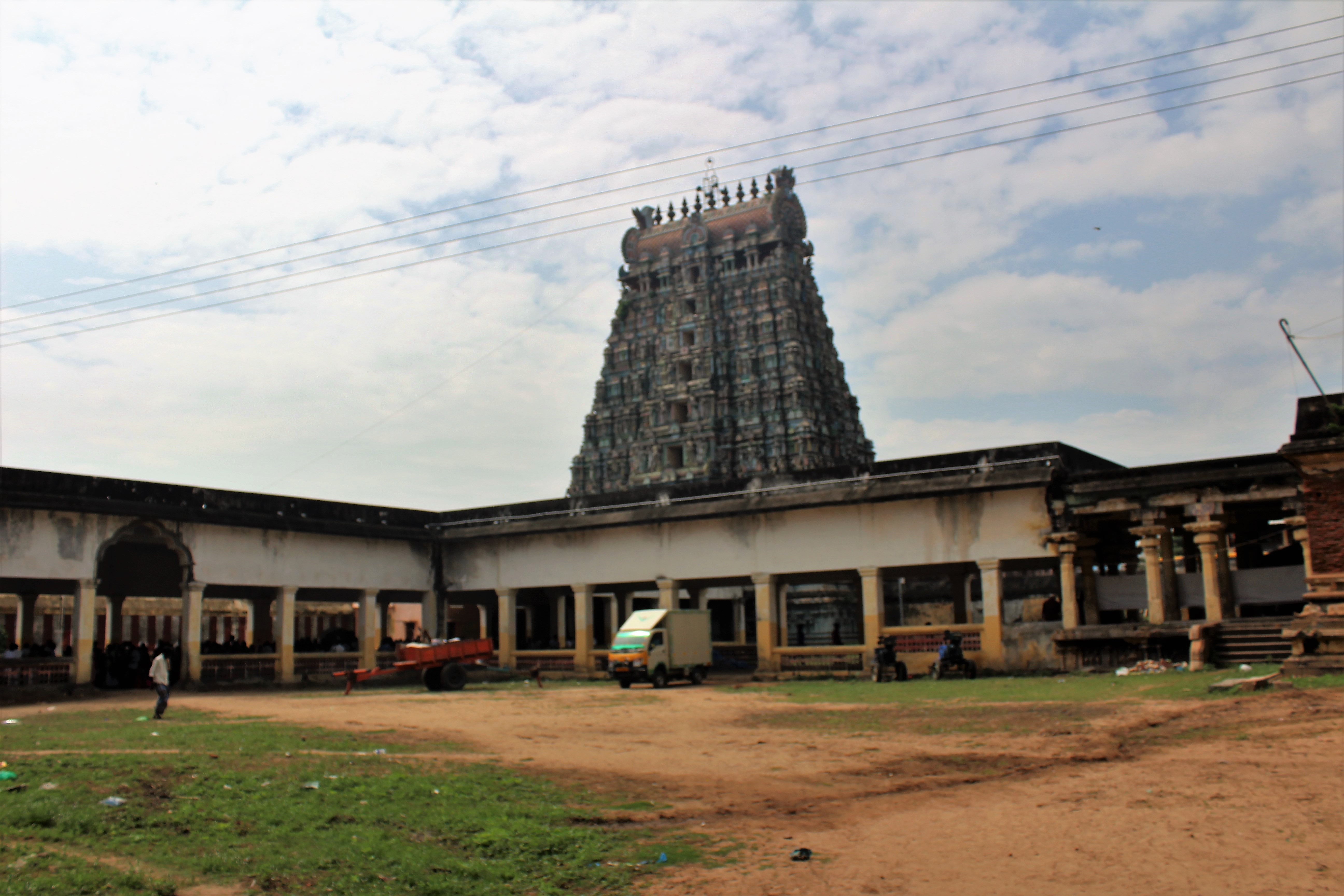 Amirthakadeswarar temple Thirukadayur